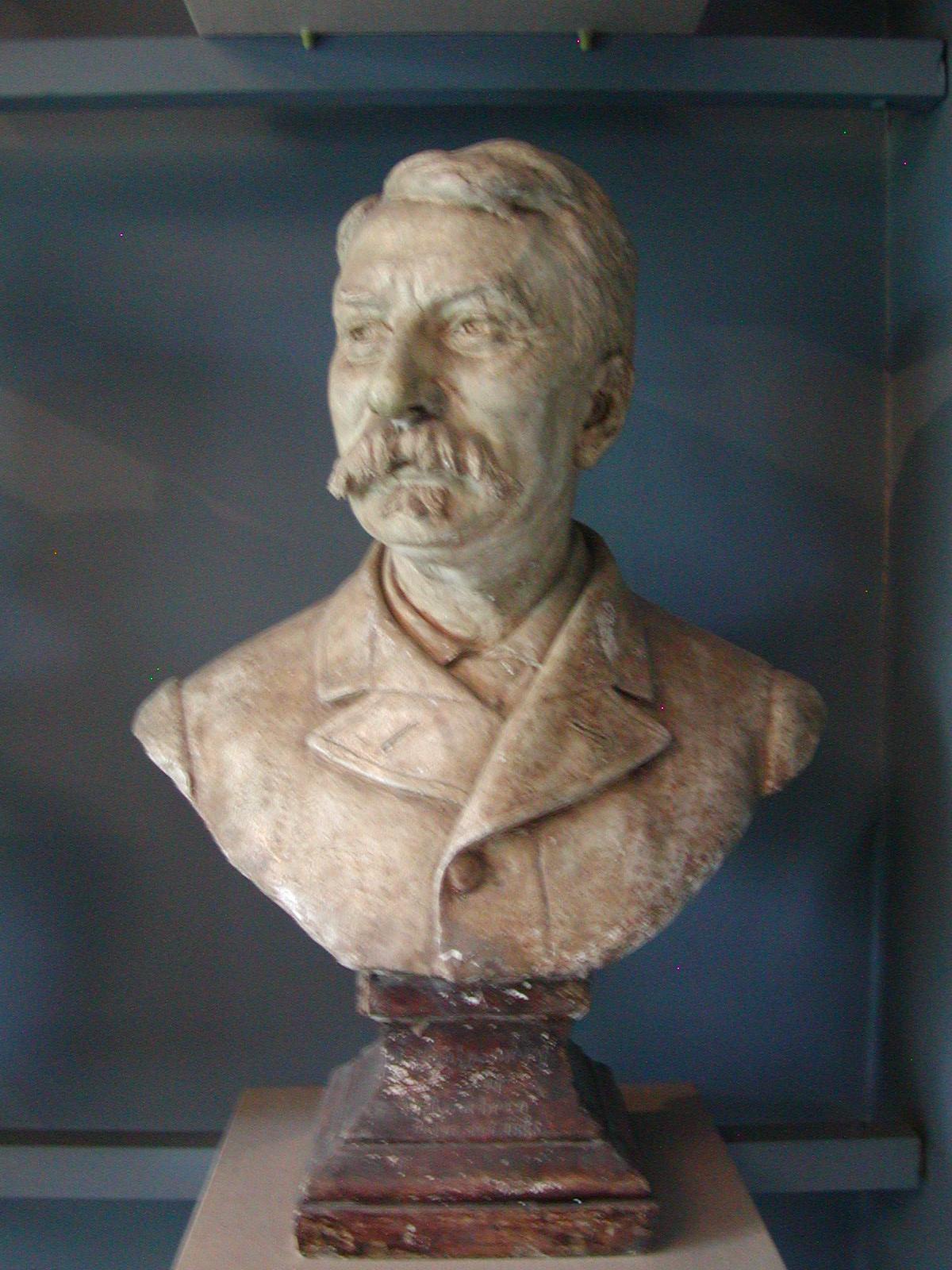 Bust of Robert Montgomery by Walter Runeberg (son of Johan Ludvig Runeberg) on display at the Runeberg Museum